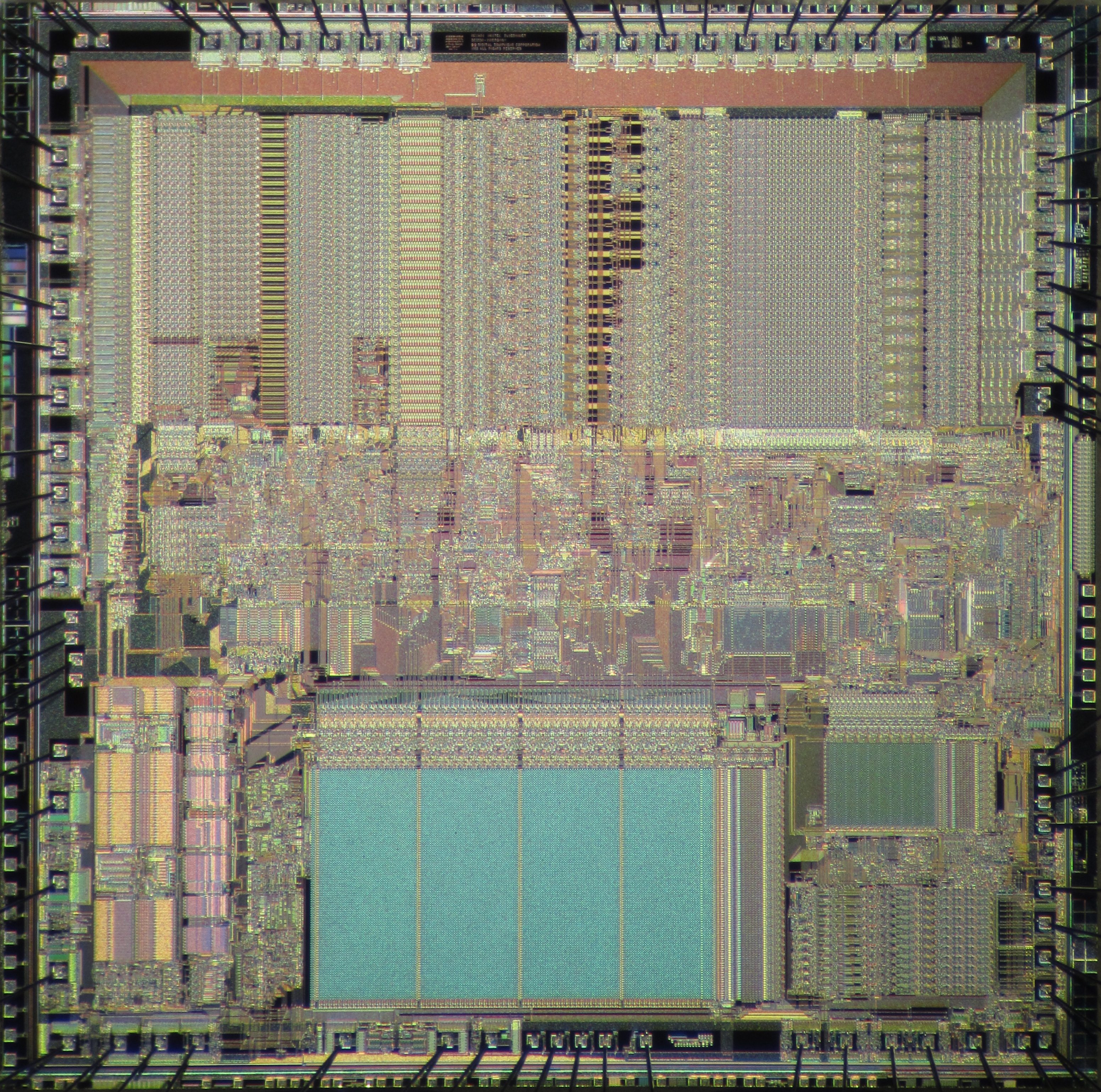 Die shot of DEC MicroVAX 78032-GD microprocessor from VAXstation2000 with chip number DC333R and part number 21-20887-05 on heatsink.